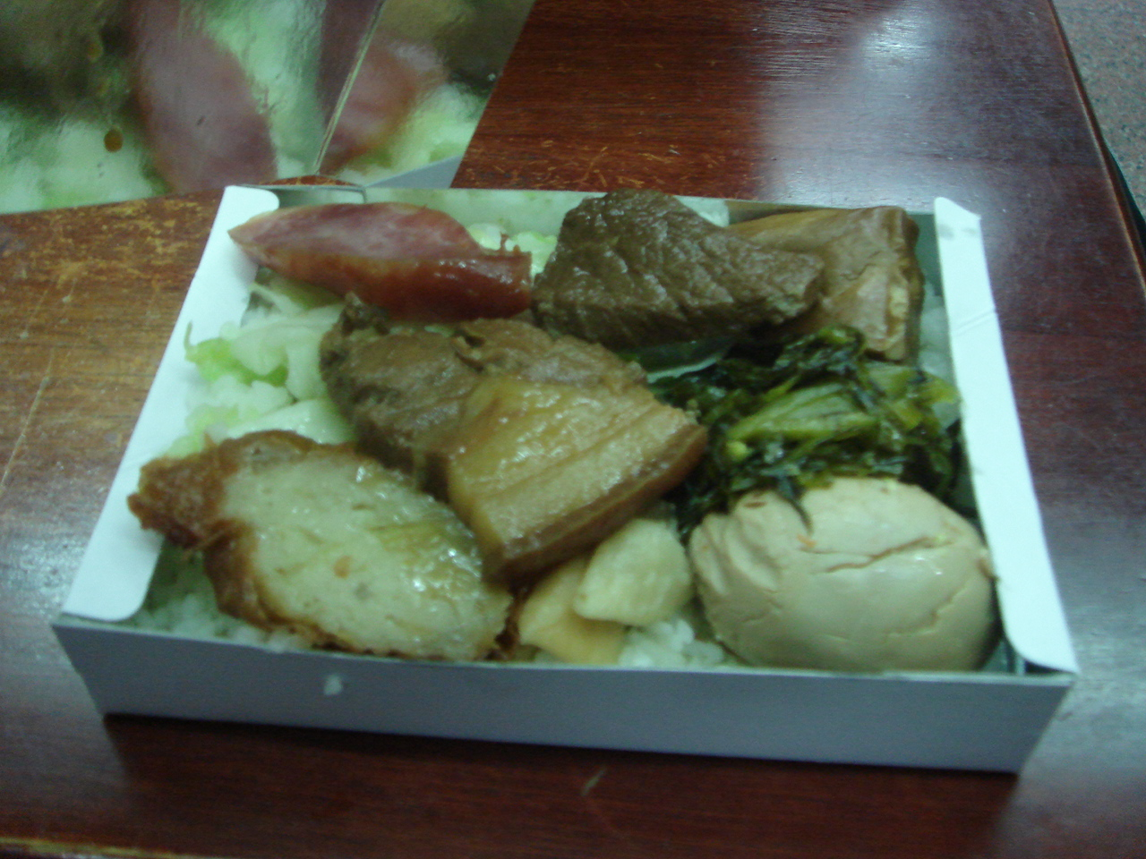 Taiwan Railway Administration Fulong Station Ekiben